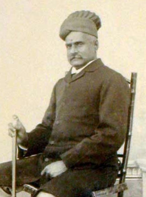 A photograph of Ravi Varma himself, by Bhawani Ram, 1890's